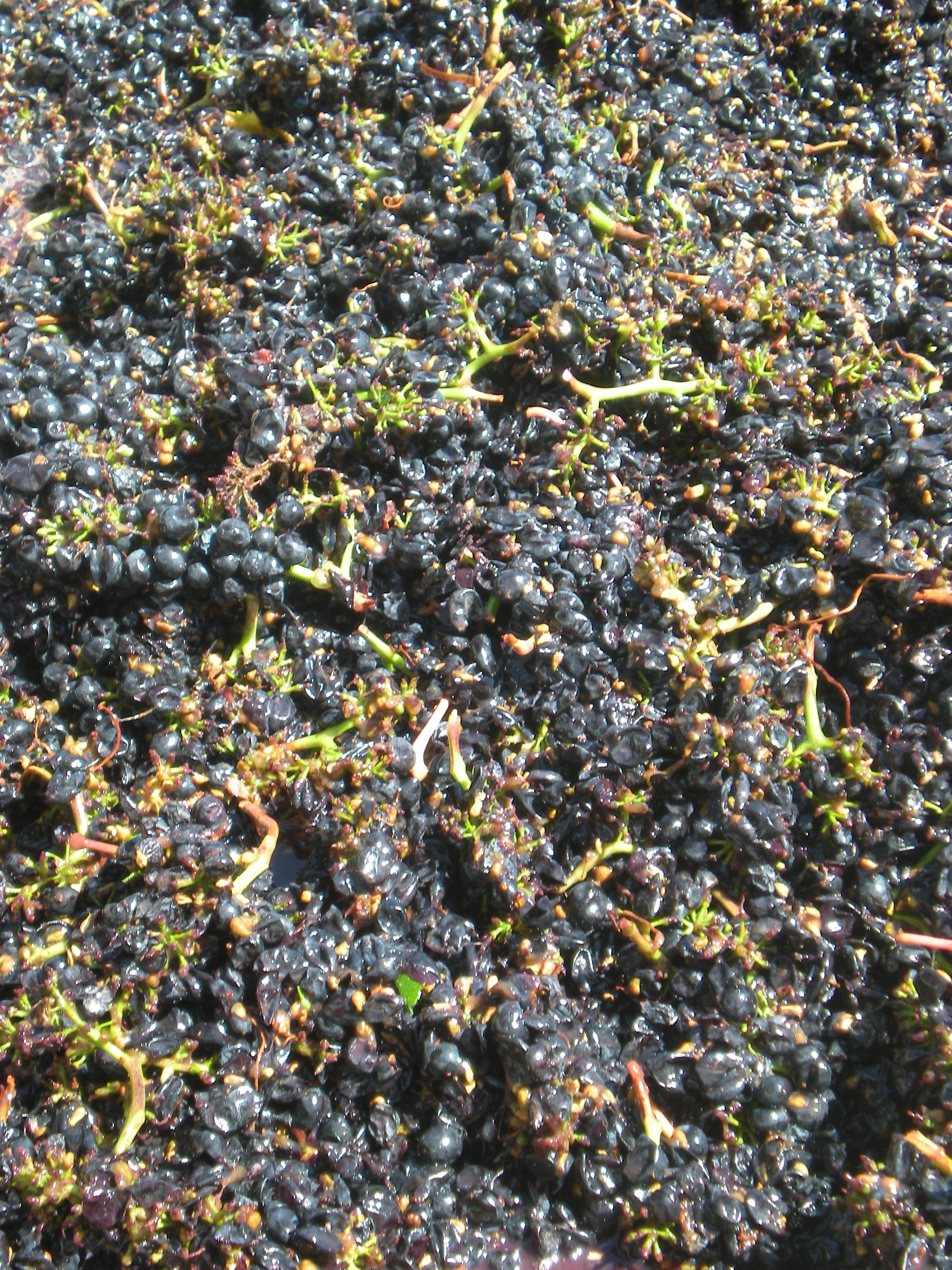 A large pile of grapes, freshly picked and waiting to be crushed. Taken at Bouchaine Winery in Napa, Calfornia.